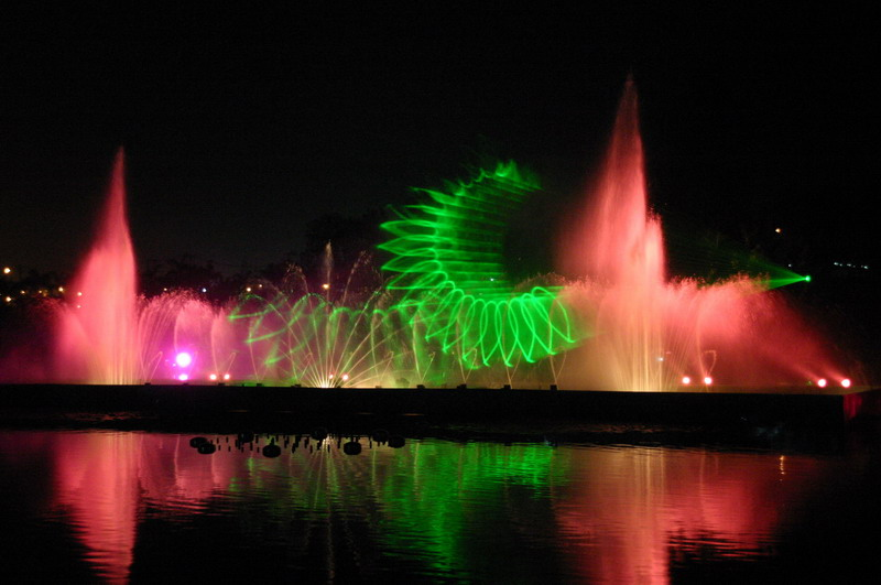 Light and sound performance in the lake, Royal Flora Expo 2006, Chiangmai, Thailand